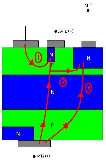 Turn-on process of a TRIAC in Quadrant II